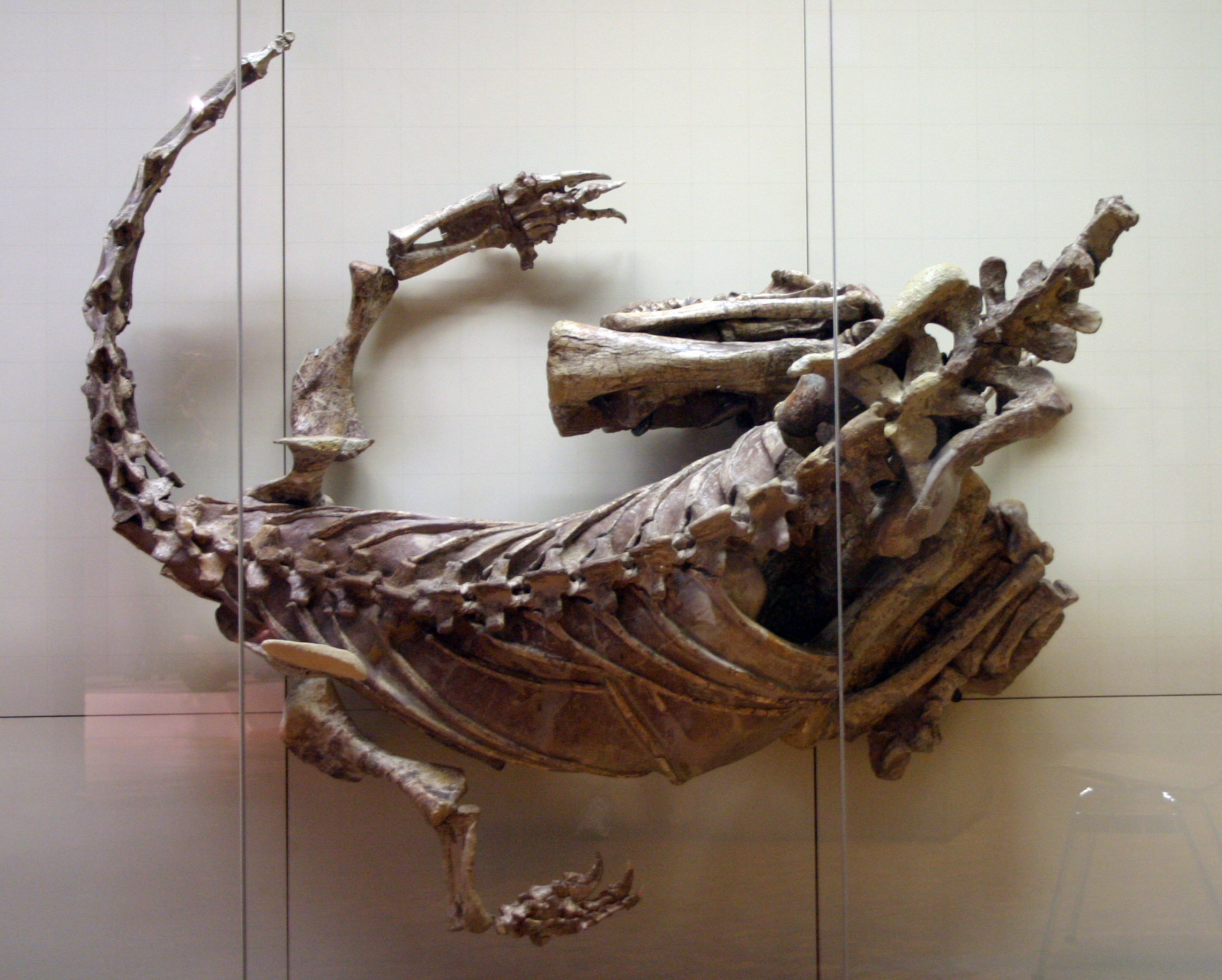 Plateosaurus engelhardti, collection number F 33 of the Museum für Naturkunde Stuttgart, Germany, inventory number SMNS 58958